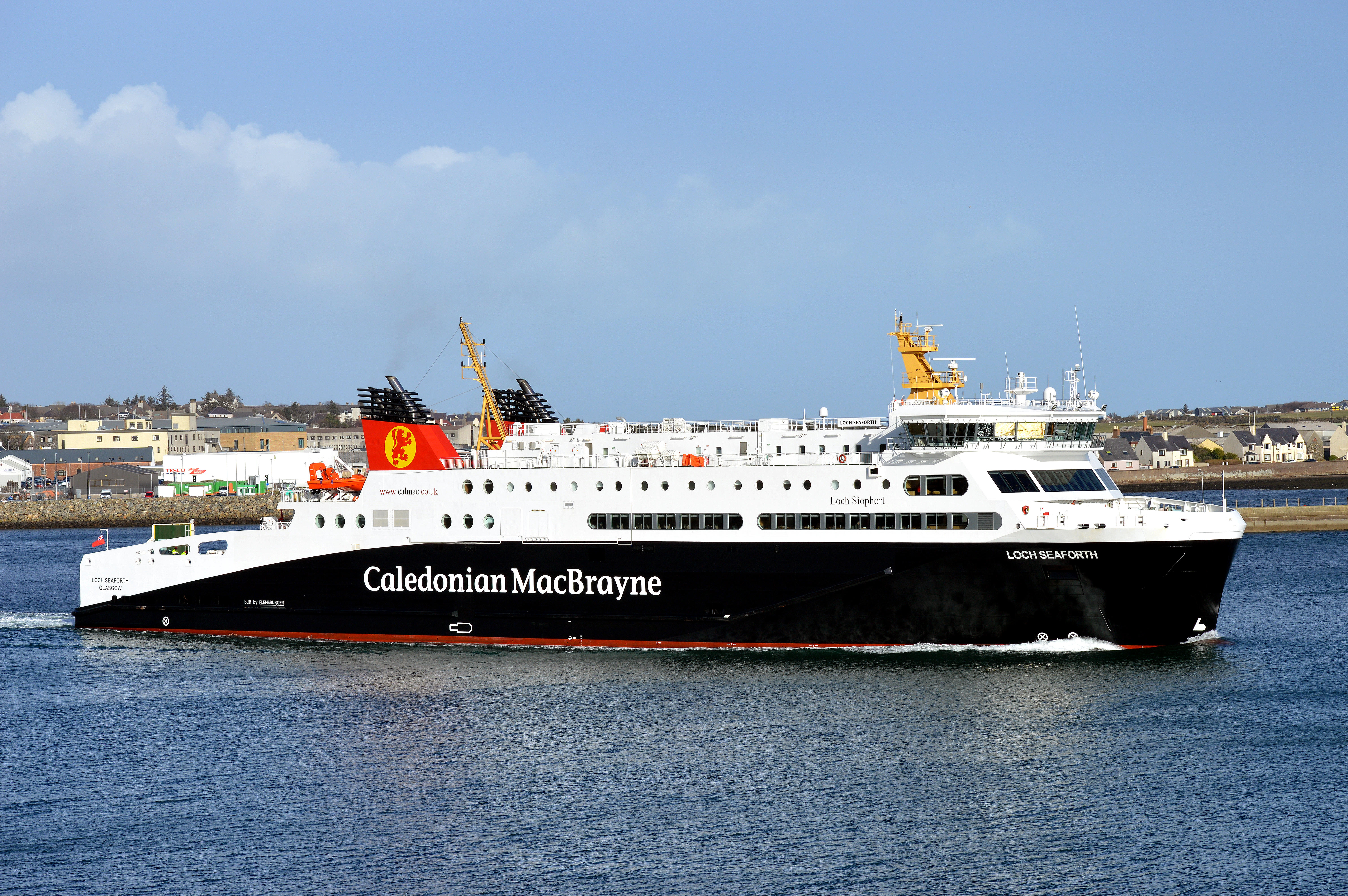 The Caledonian MacBrayne ferry built for the service to the Scottish west coast island of Lewis, departing the town of Stornoway for the Wester Ross port of Ullapool on 24 February 2015, eight days after the vessel had officially entered service on the route.